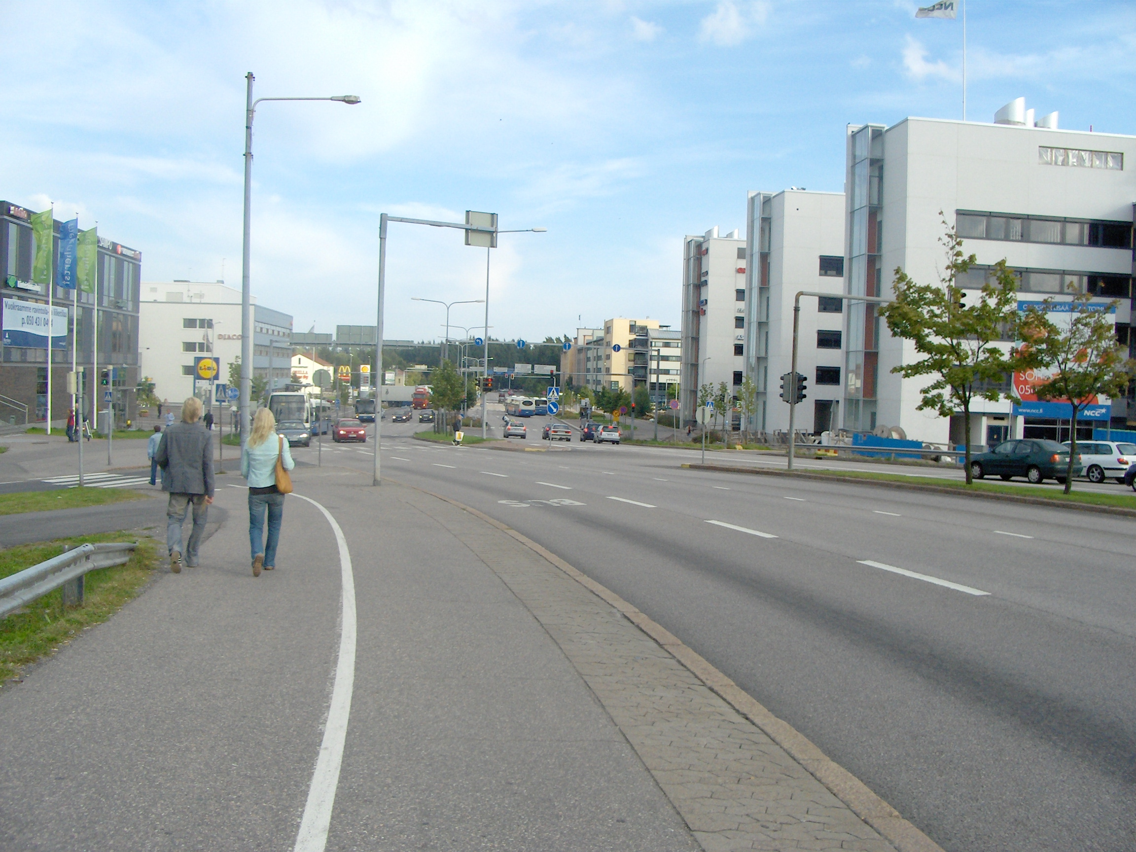 Linnanrakentajantie street in Herttoniemi, Helsinki, Finland, looking east.